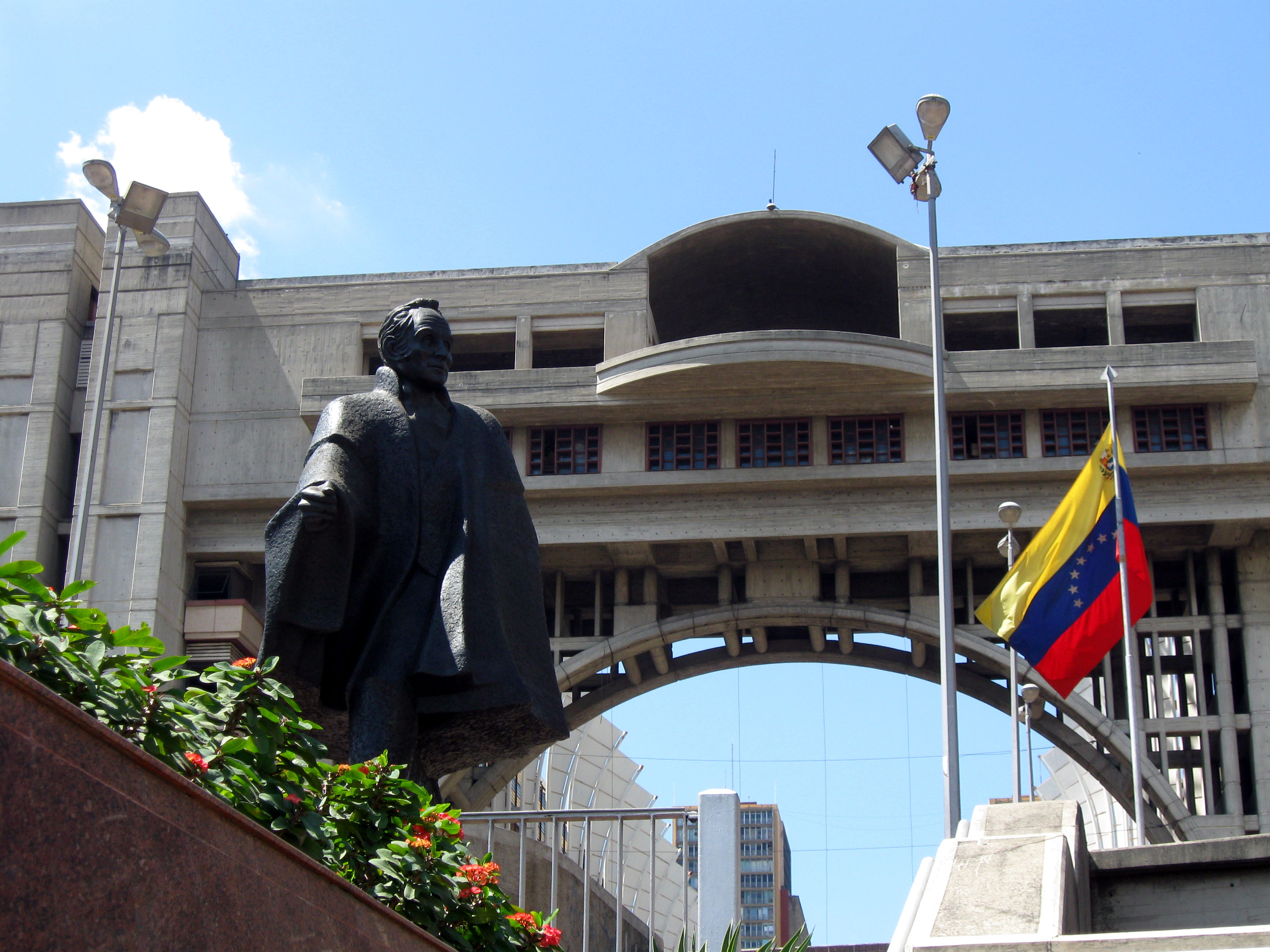 Statue of Simón Bolívar in Plaza Bolívar, Caracas, Venezuela